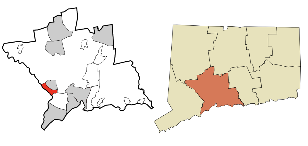 Based on similar map concepts by Ixnayonthetimmay and Arkyan